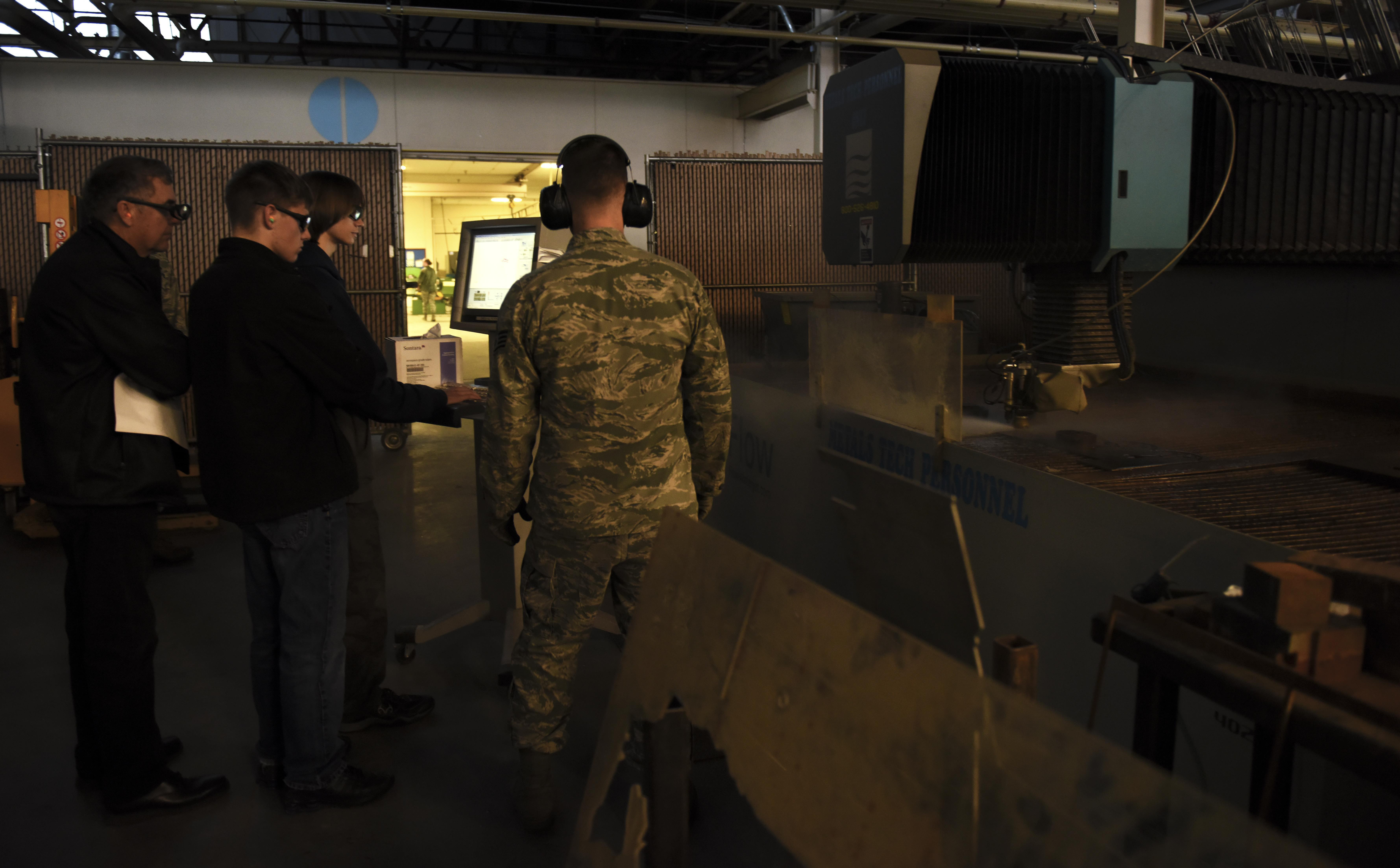 Students from Medical Lake High School led by Staff Sgt. Jerry Brock, 92nd Maintenance Squadron metals technology craftsman, make cuts on a piece of metal using the waterjet cutter Dec. 1, 2016, at Fairchild Air Force Base. The metals technology section plans to host more community events to ensure their crucial mission is shared to encourage young students to pursue their passion. (U.S. Air Force photo/Airman 1st Class Sean Campbell) Unit: 92d Air Refueling Wing DVIDS Tags: Air National Guard; KC-135 Stratotanker; service members; armed forces; Air Mobility Command; KC-135; sacrifice; 18th Air Force; Airman Magazine; military; Air Force; U.S. Air Force; robots; 92nd Air Refueling Wing; 92nd Maintenance Squadron; Air Force Times; Military Times; 141st Air Refueling Wing; Medical Lake High School; waterjet; 92nd MXS; Circuit Breakers robotics club; double spindle lathe